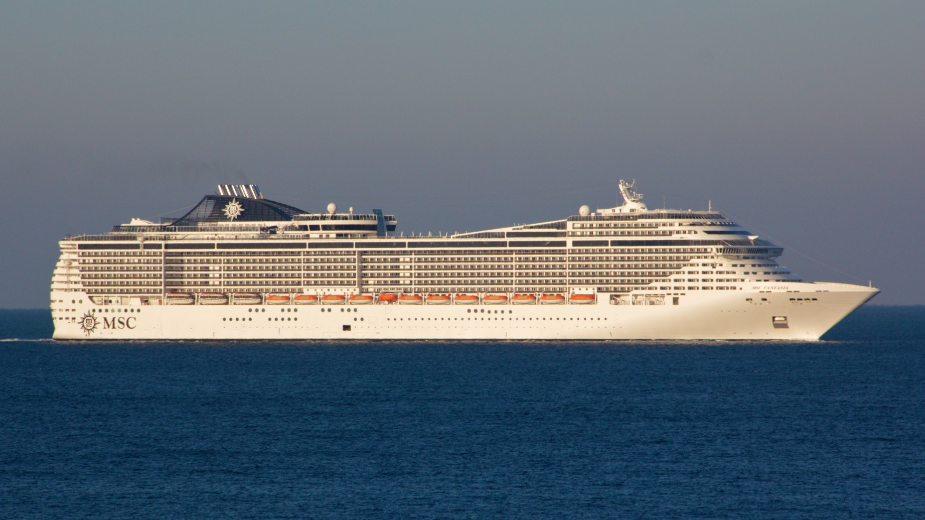 "MSC Fantasia" entering harbour of Civitavecchia (Italy)